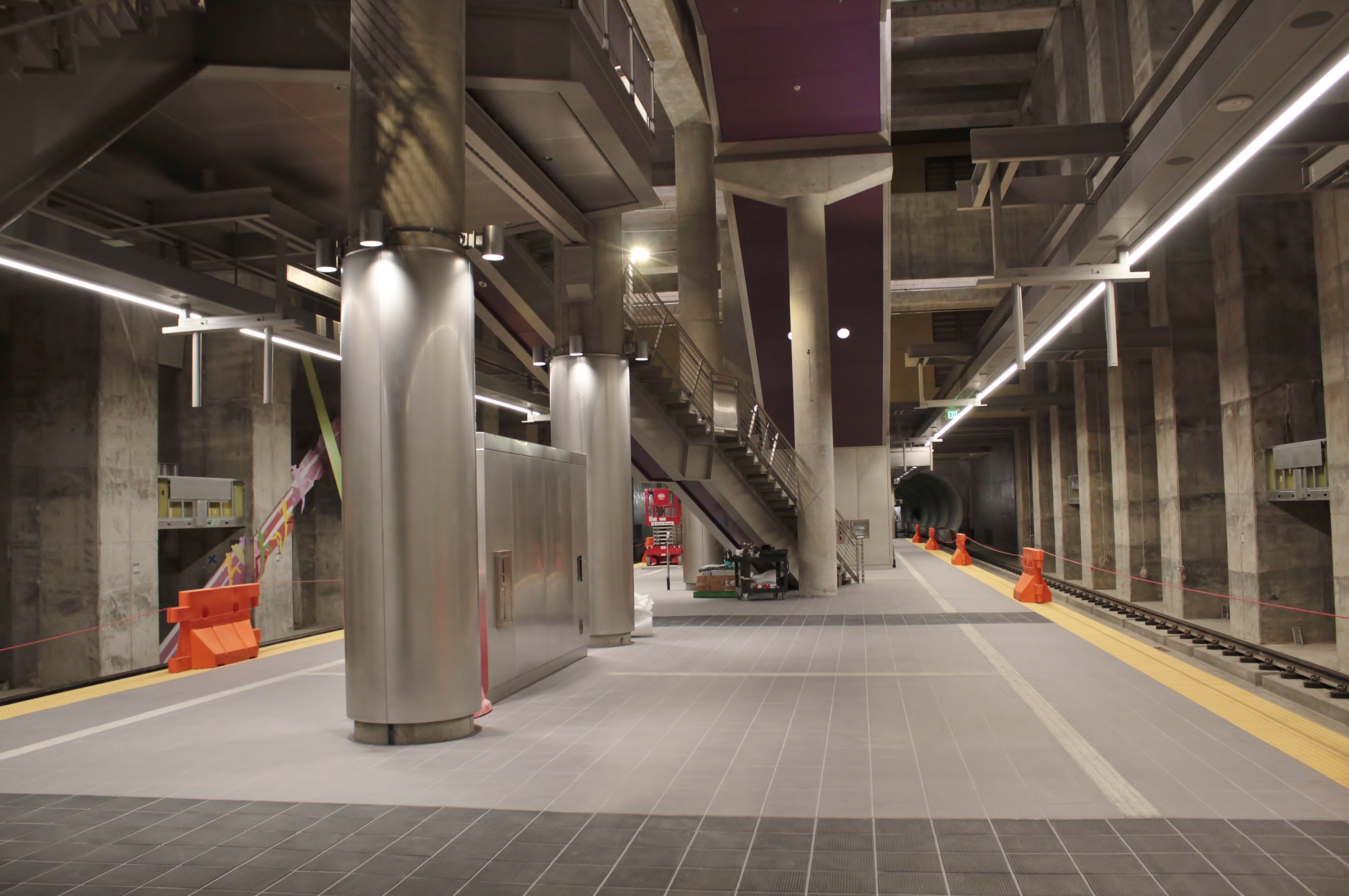 The platform level at Roosevelt Station, a future light rail station in Seattle, Washington. This photo was taken during a media tour of the station to celebrate substantial completion.